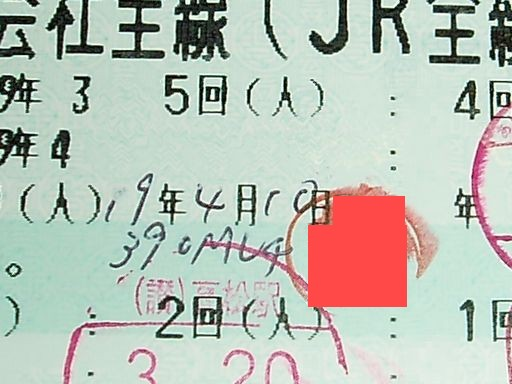 An example of date entry of the "Seishun 18 ticket" by a conductor